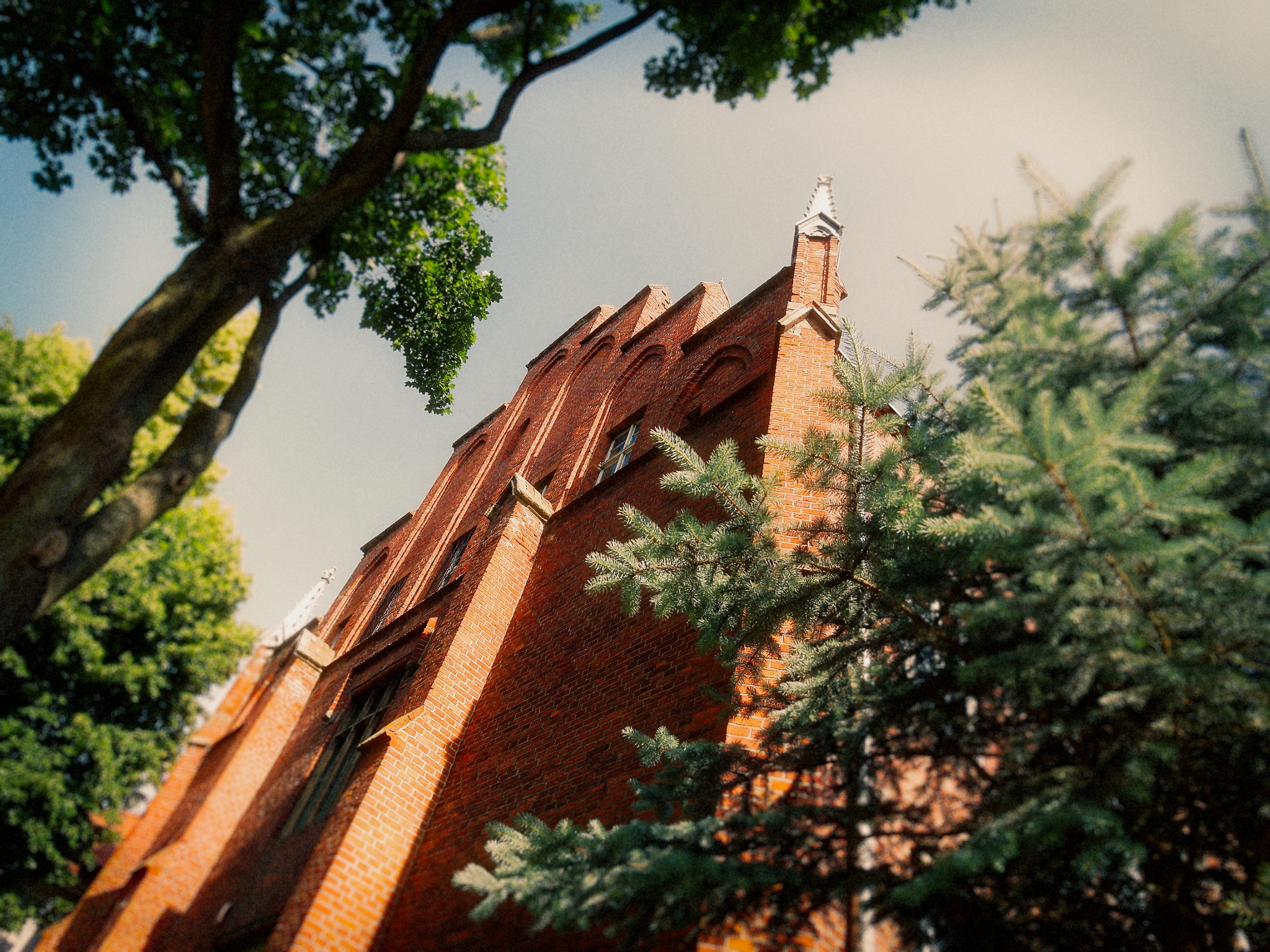 Ełk - Armia Krajowa St. - June 2016